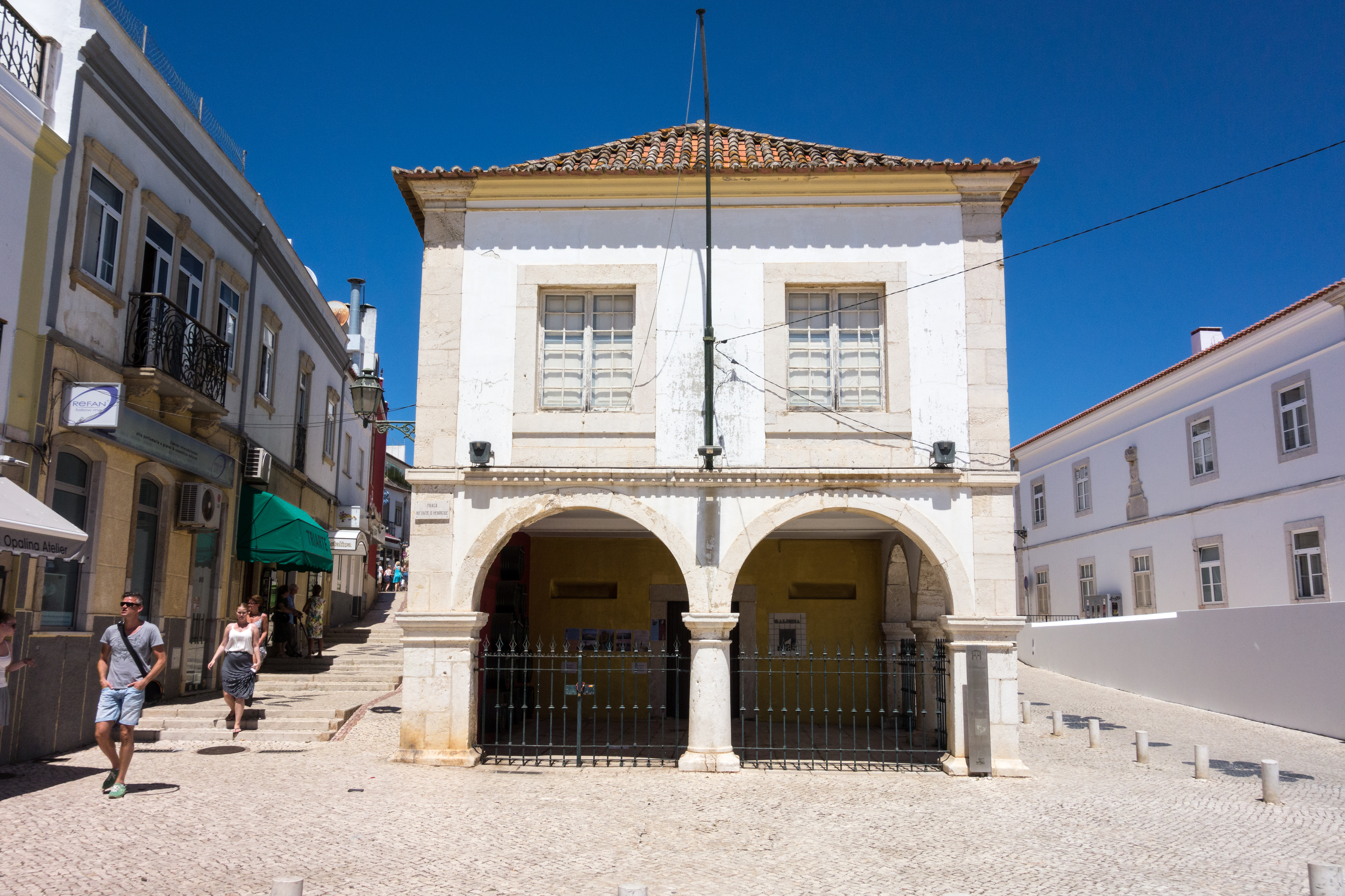 The building with the double arch once housed the slave market in town of Lagos, Algarve, Portugal. The building is located on the Praça Infante Dom Henrique and is classified as a monument of public interest. It was built in 1691 although the trade in slaves from Africa began on this sight in the mid fifteenth century and from here slaves were shipped throughout Europe at great profit to the Portuguese monarchy and merchants of lagos.